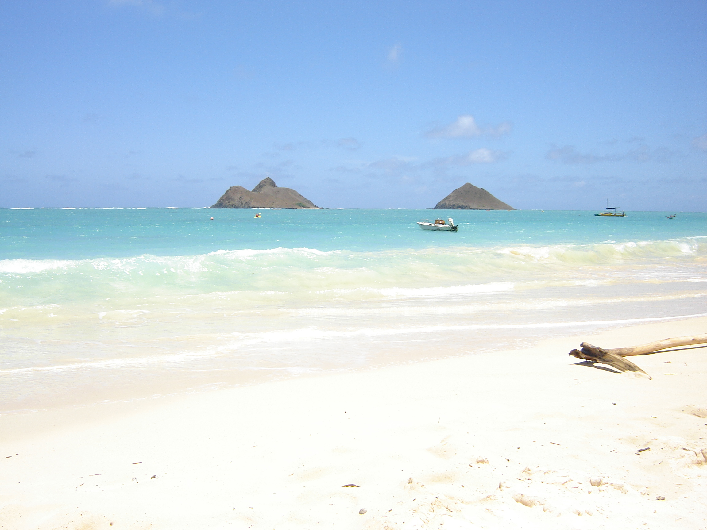 Lanikai Beach, Oahu, Hawaii